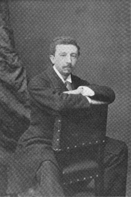 Gian Andrea Mazzucato